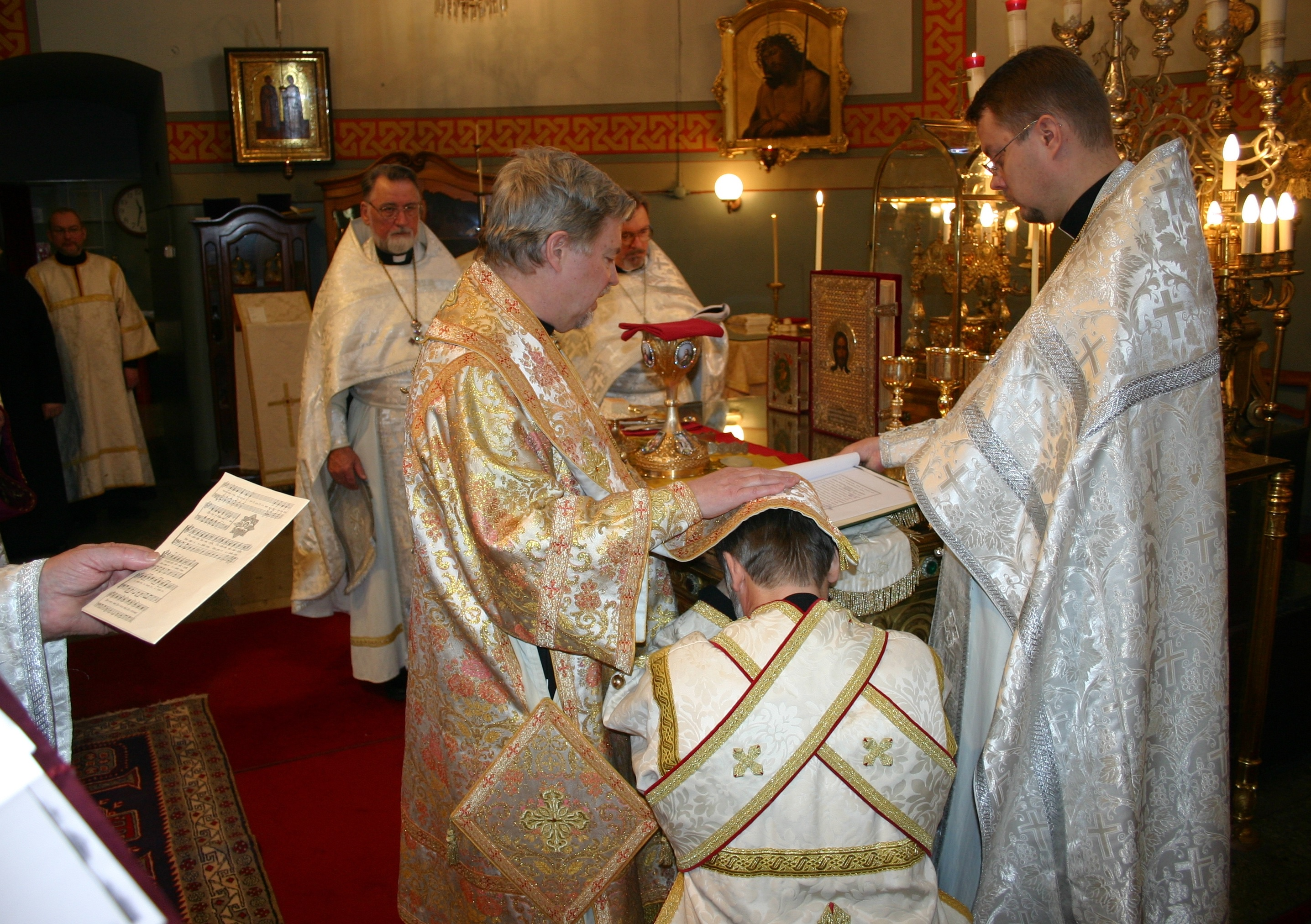 Ordination (Keirotonia) of a deacon